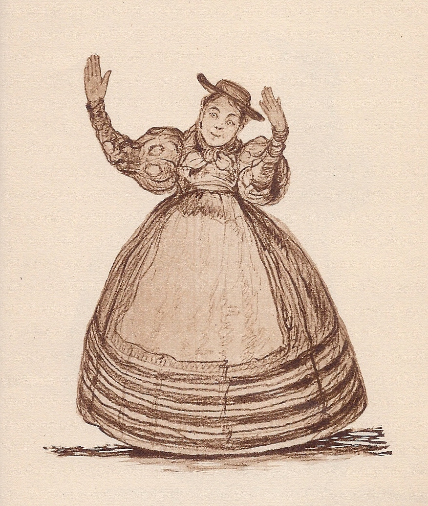 The german dancer Niddy Impekoven in her dance Münchener Kaffeewärmer (Munic coffee-cosy) 1919. Drawing of her uncle, the stage designer Leo Impekoven.